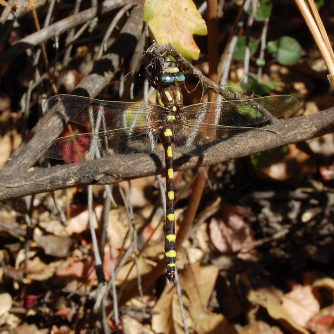 Pacific Spiketail. Male